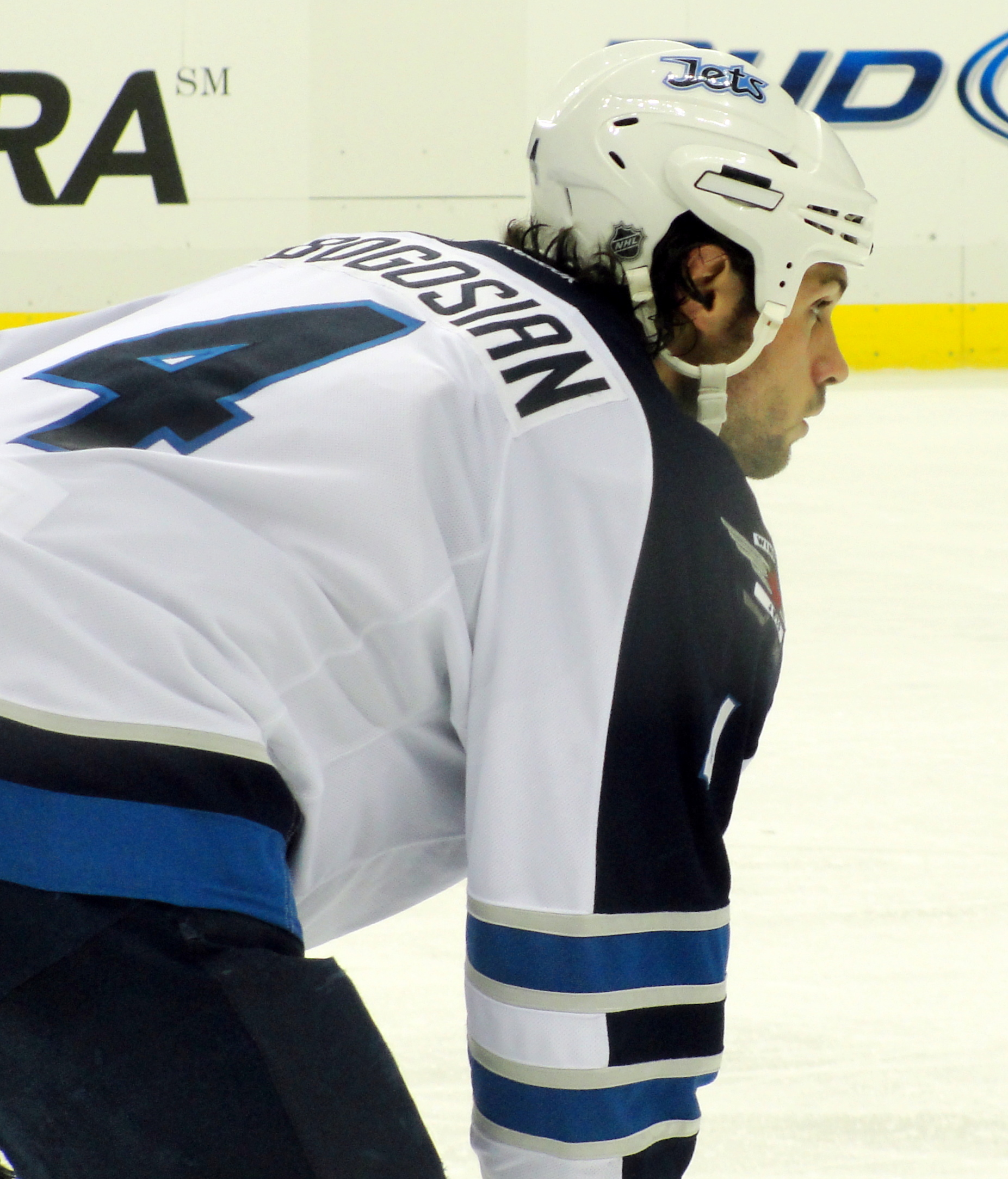 Zach Bogosian of the Winnepeg Jets during a game against the Pittsburgh Penguins, February 11, 2012 at Consol Energy Center in Pittsburgh, PA.